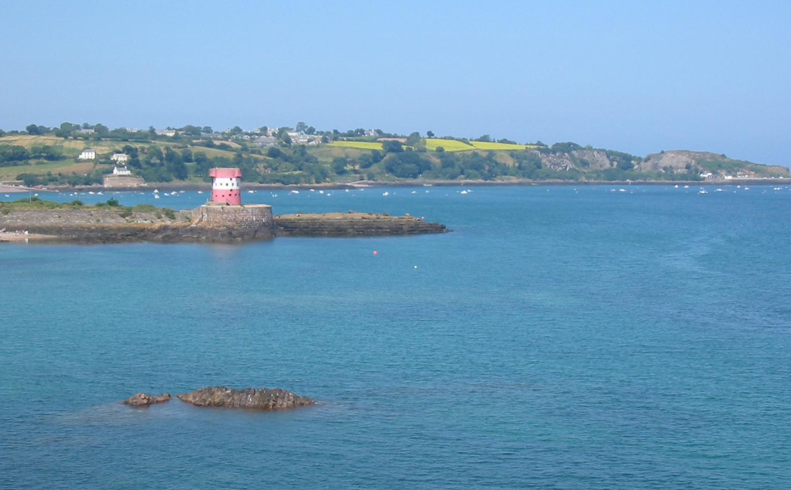 Archirondel, Jersey, looking north towards St Catherine. The Jersey Round Tower is painted in distinctive colours for navigation Photo taken by Man vyi with Canon PowerShot A40 on 15/7/2005